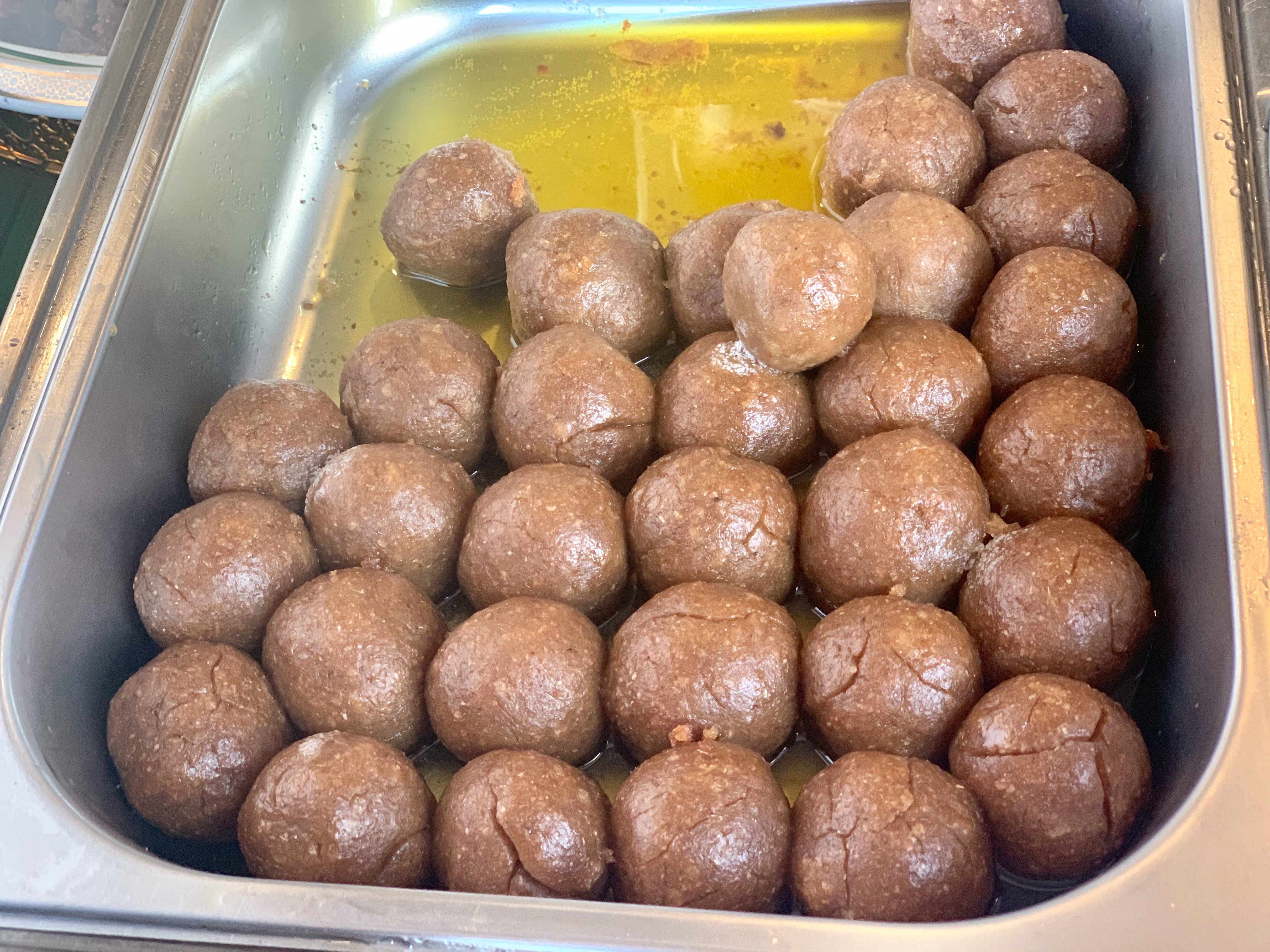 Hininy Vestival in Unayzah.